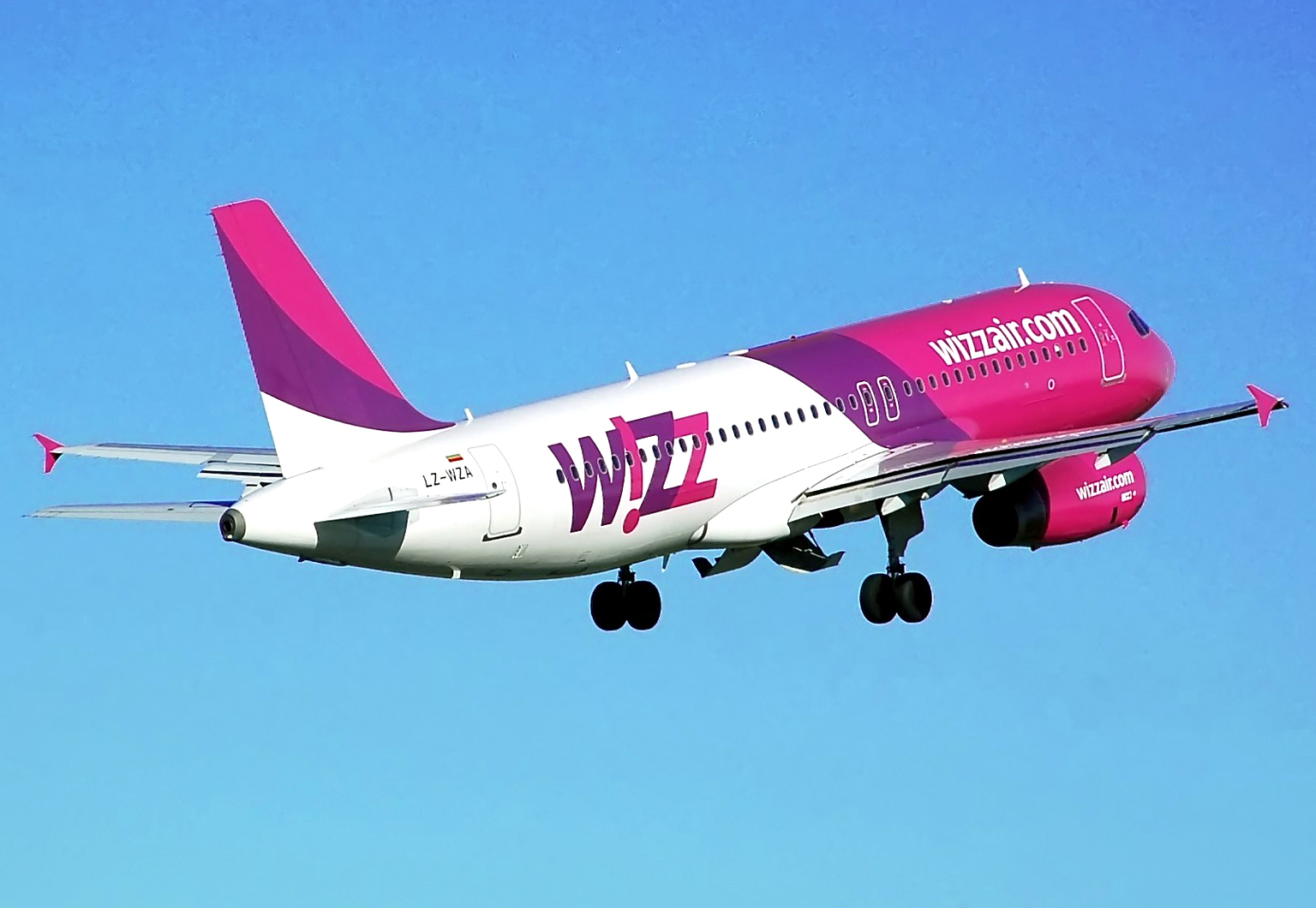 Whizz Air Airbus A320-200 (LZ-WZA) takes off from London Luton Airport, Bedfordshire, England.